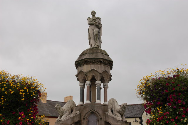 Crozier monument, Banbridge (detail) See 232446. Crozier, surrounded by polar bears, is looking to the north west.